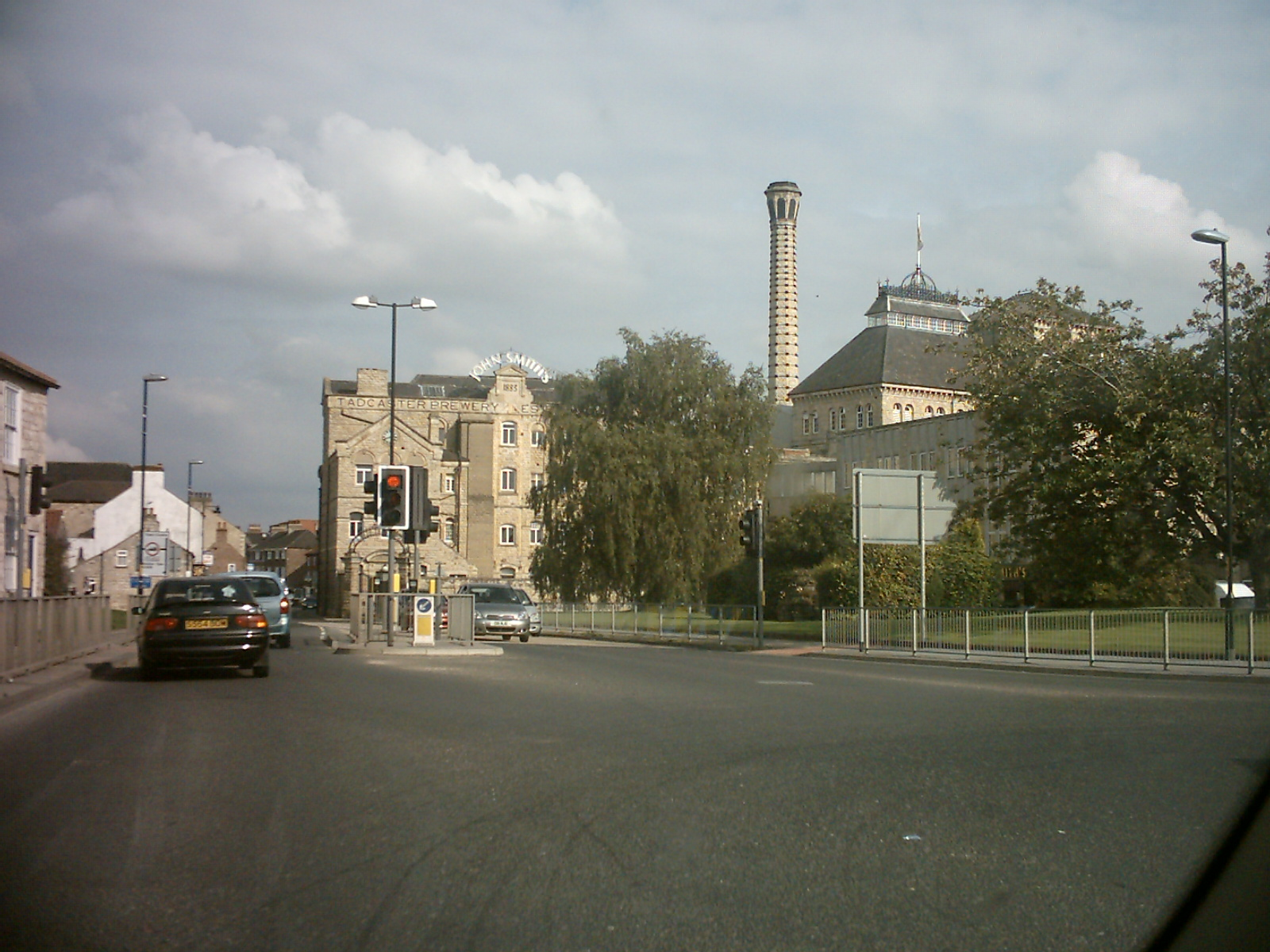 John Smiths Brewery, Tadcaster